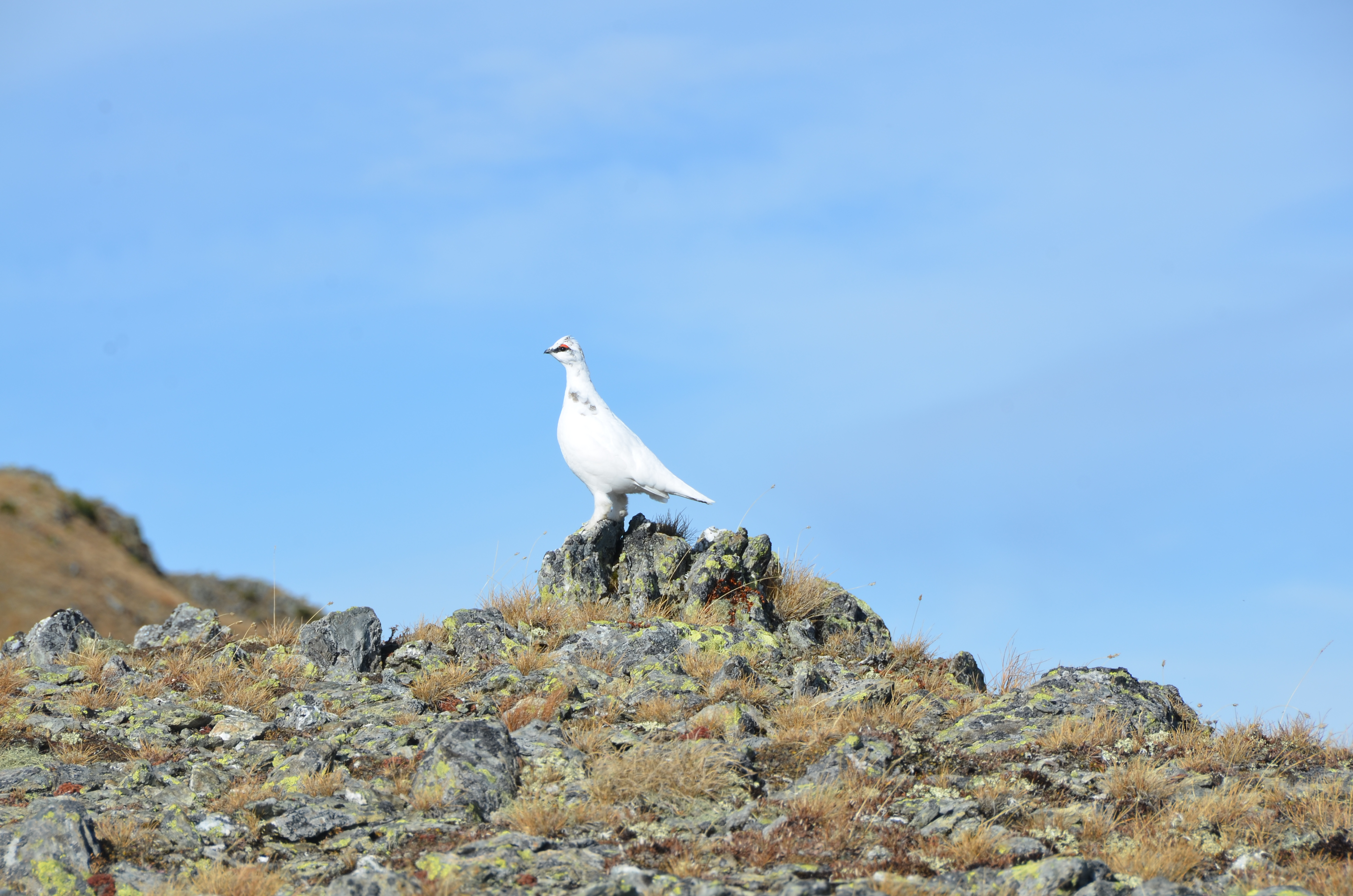 Rock Ptarmigan (Lagopus muta), on the mountain ridge south of the Bretthoehe (2320 m sea level) within the Nock mountains, Seebachern, municipality Albeck, district Feldkirchen, Carinthia / Austria / EU